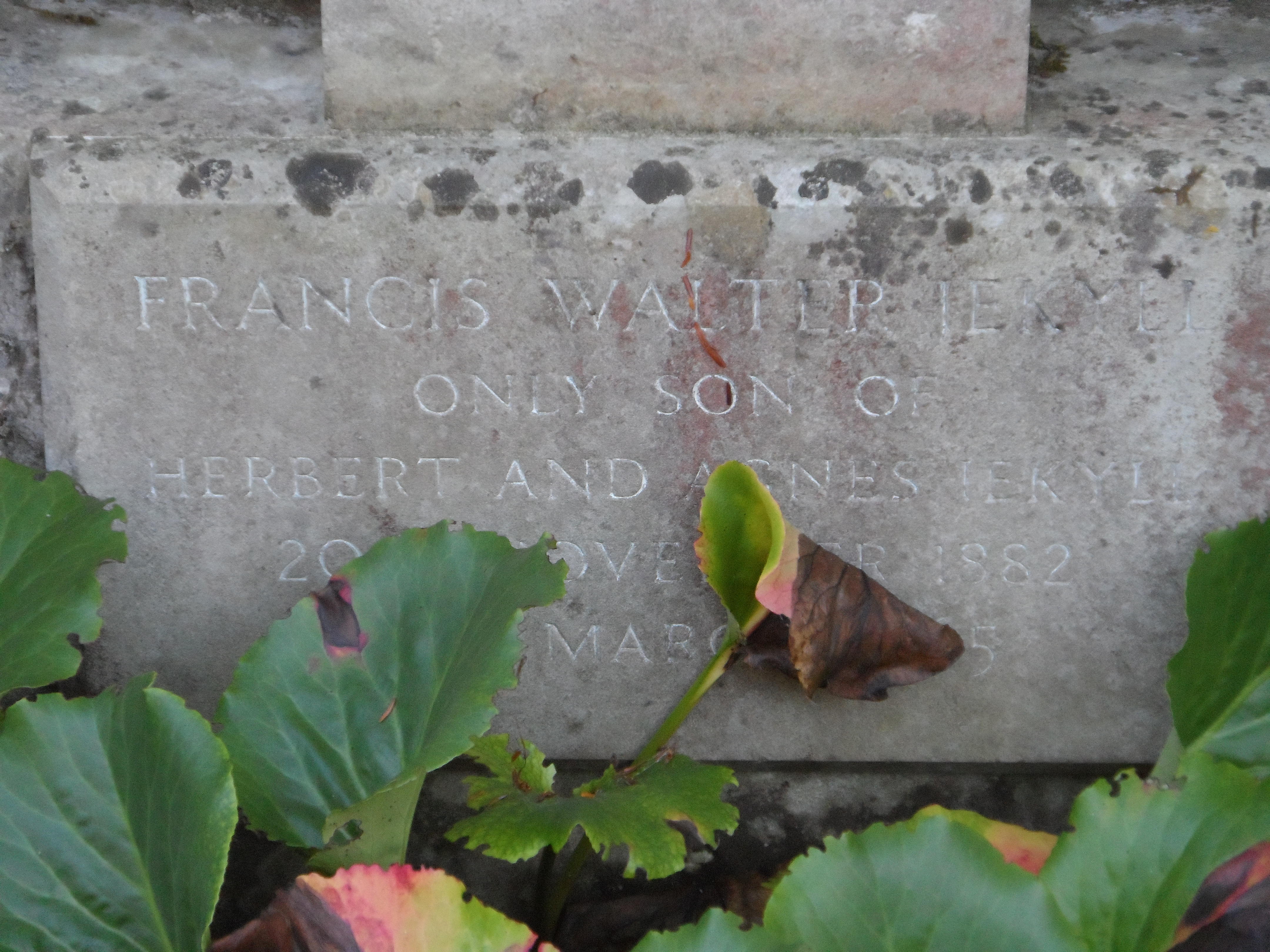 Francis Walter Jekyll memorial, part of the Jekyll family memorial in the churchyard at St John the Baptist's church, Busbridge, Surrey, UK. This memorial stone commemorates Francis Walter Jekyll (1882-1965). Memorial designed by Edwin Lutyens (1869-1944). Inscription: FRANCIS WALTER JEKYLL ONLY SON OF HERBERT AND AGNES JEKYLL 20TH NOVEMBER 1882 27TH MARCH 1965